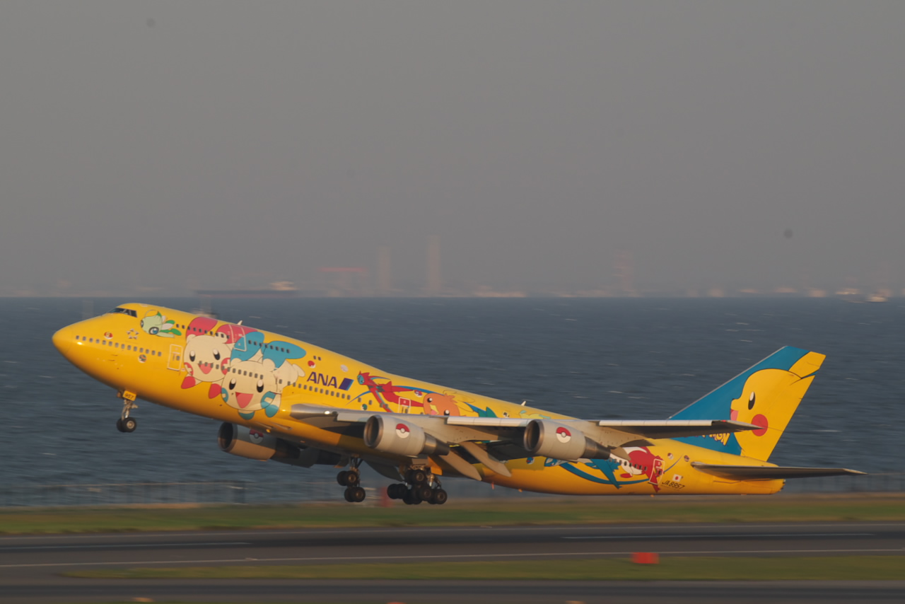 ANA Boeing 747-481D "Pokemon" (JA8957) take off in sunset on Tokyo international airport. 夕陽の中、東京国際空港を離陸するポケモン塗装の全日空のボーイング747-481D(JA8957)。 札幌、福岡、那覇線辺りを飛ぶことが多いので、この機体もよく見かける。 Pentax K100D+Sigma 70-300mm/F4-5.6